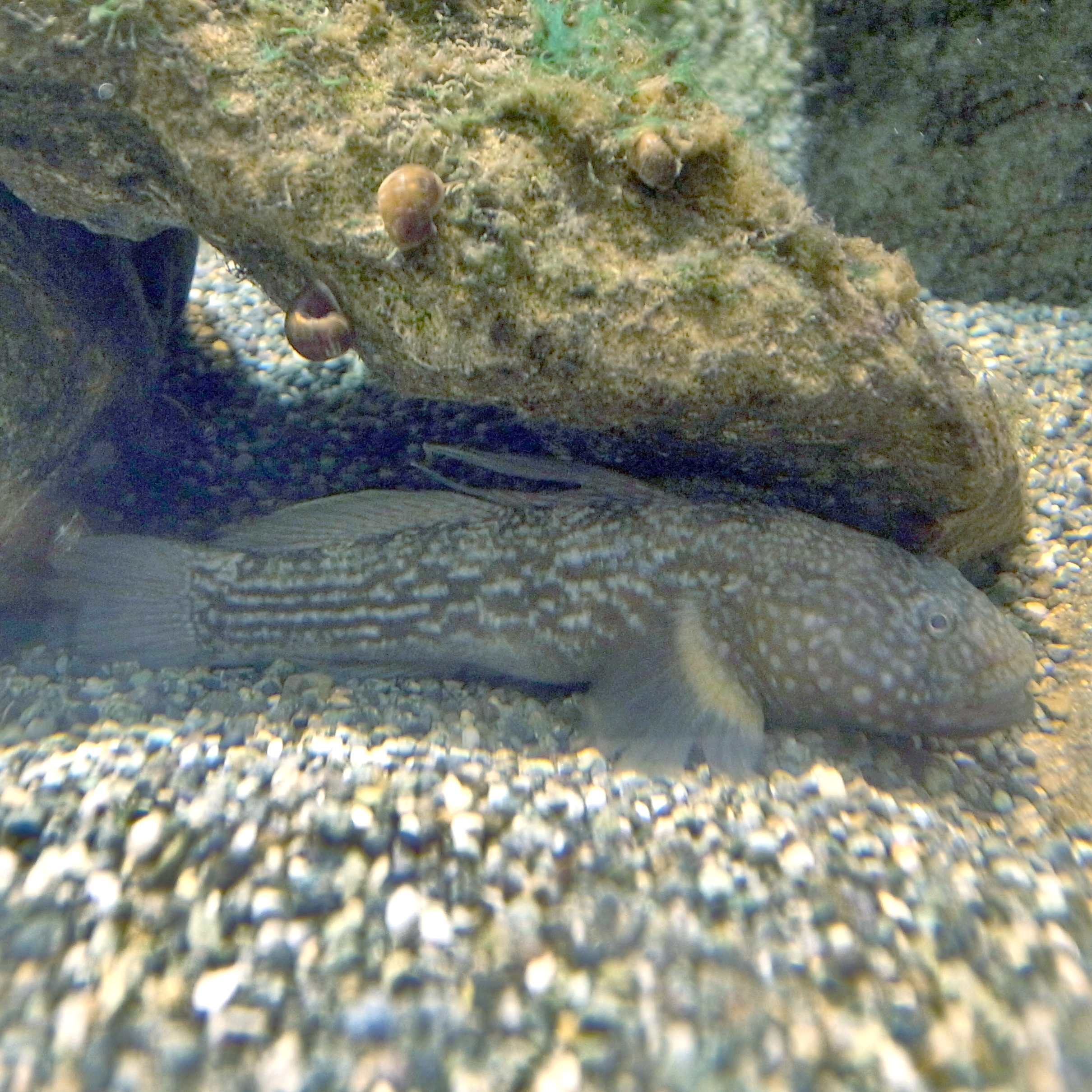 Dusky tripletooth goby (Tridentiger obscurus (Temminck & Schlegel, 1845)) in Nagoya Higashiyama Zoo and Botanical Gardens, Japan